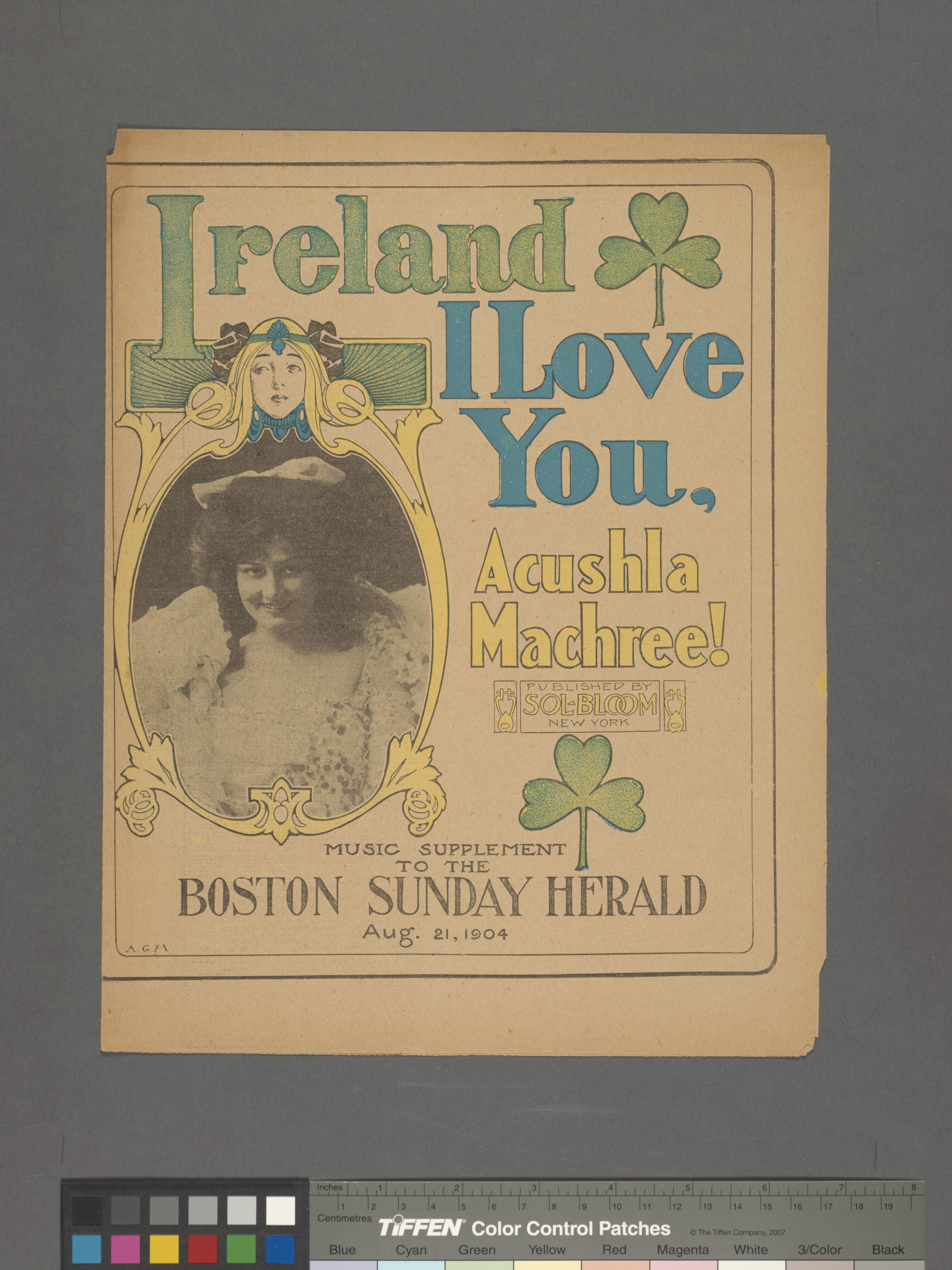 Musical supplement to the Boston Sunday Herald, Aug. 21, 1904. On cover: [Female portrait] Dedication: Dedicated to Arthur Dixen, Esq., Chicago, Ill. Statement of responsibility : words and music by Raymond A. Browne.